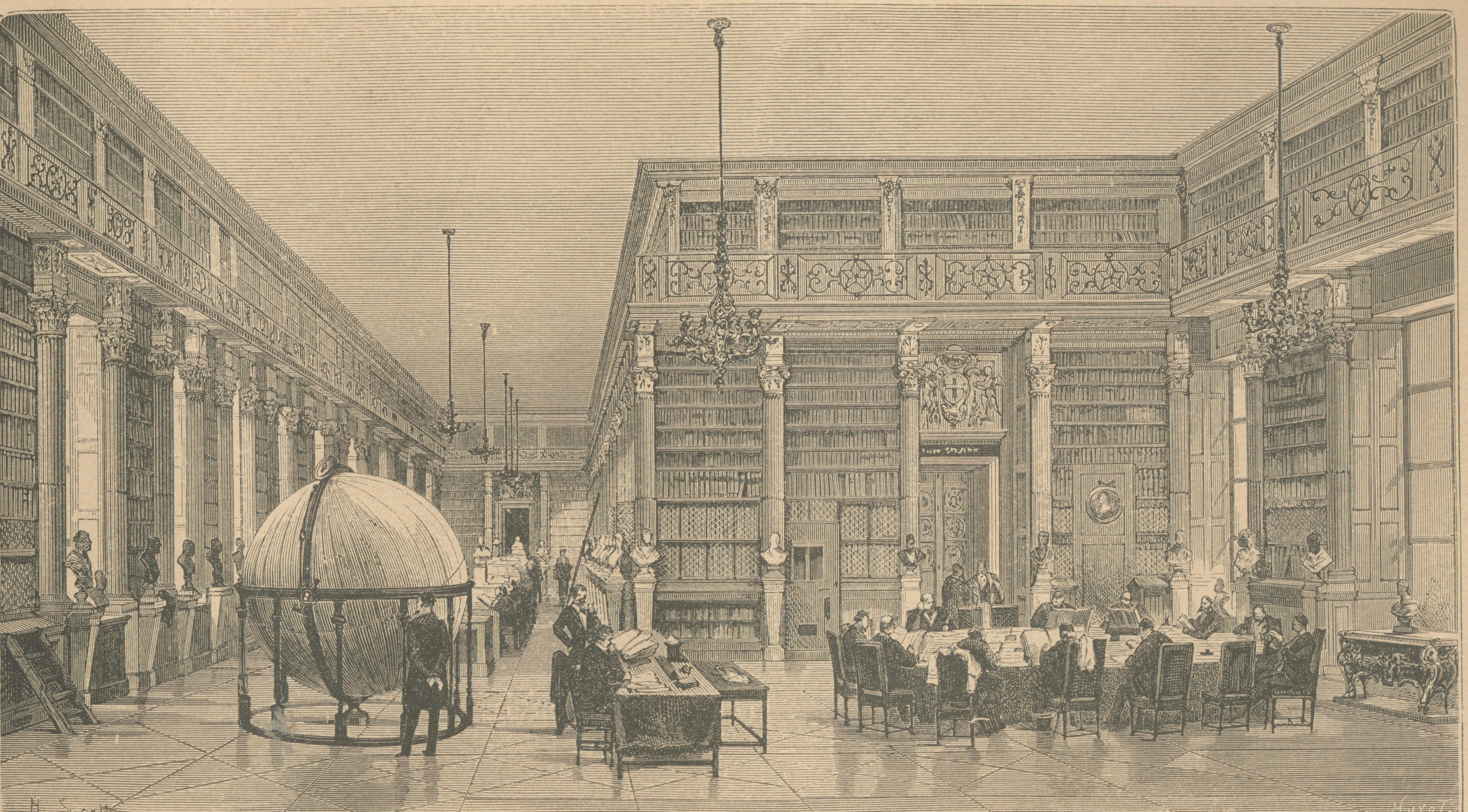 Reading-room of the Bibliothèque Mazarine (Paris)